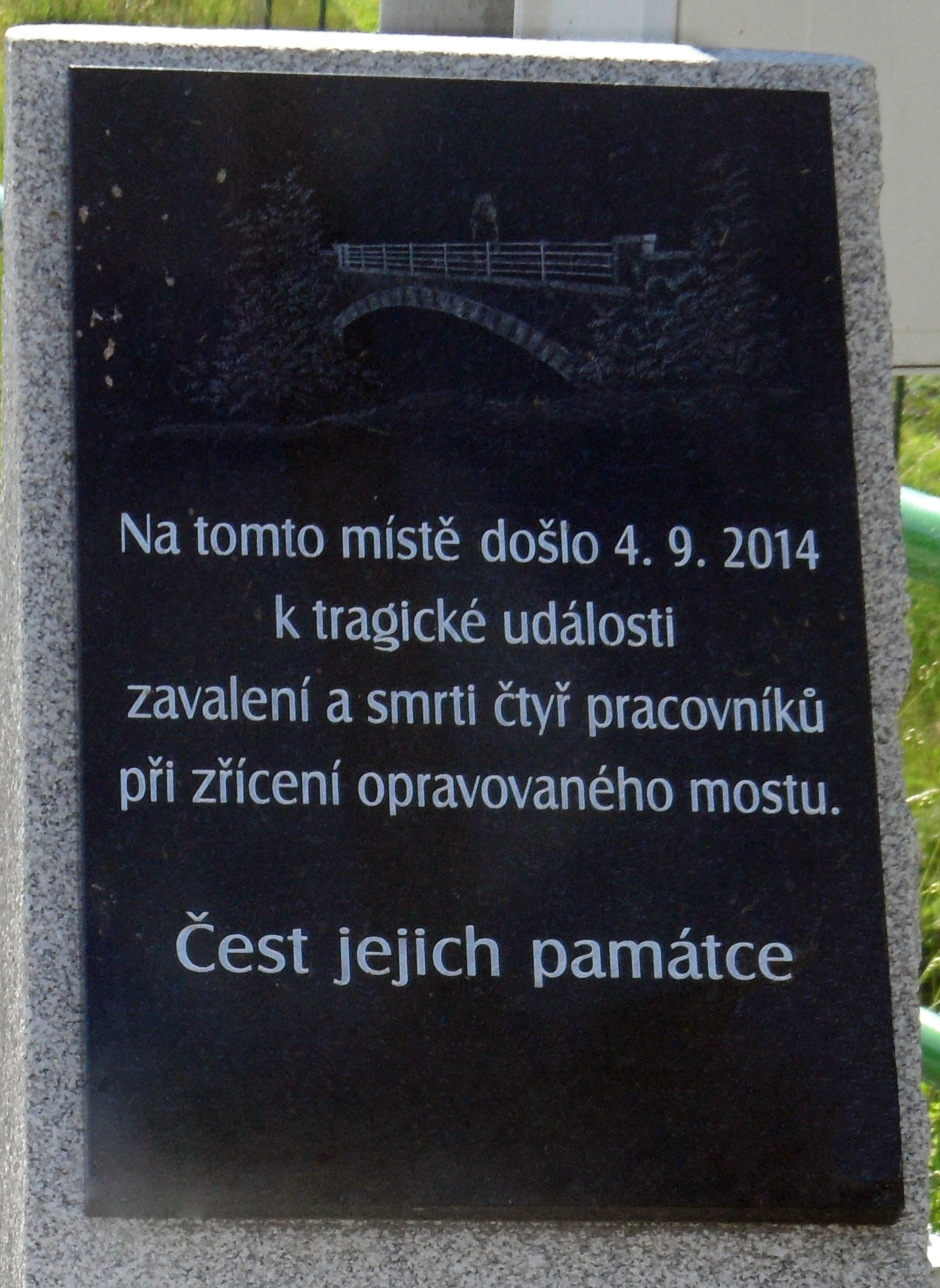 Vilémov, Memorial Plaque of Victims of Collapsed Bridge (Detail). Havlíčův Brod District, the Czech Republic.